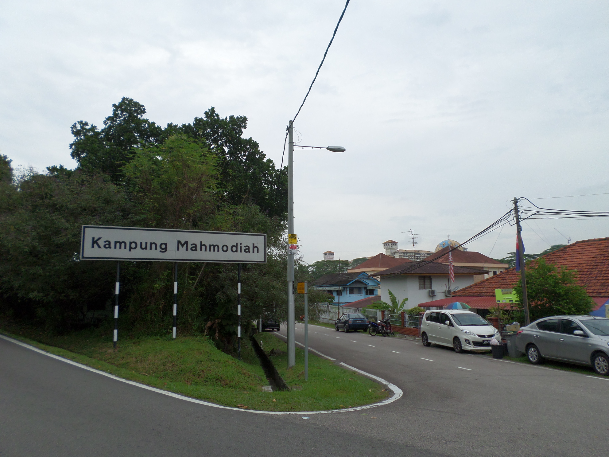 Mahmodiah Village, Johor Bahru, Johor, Malaysia